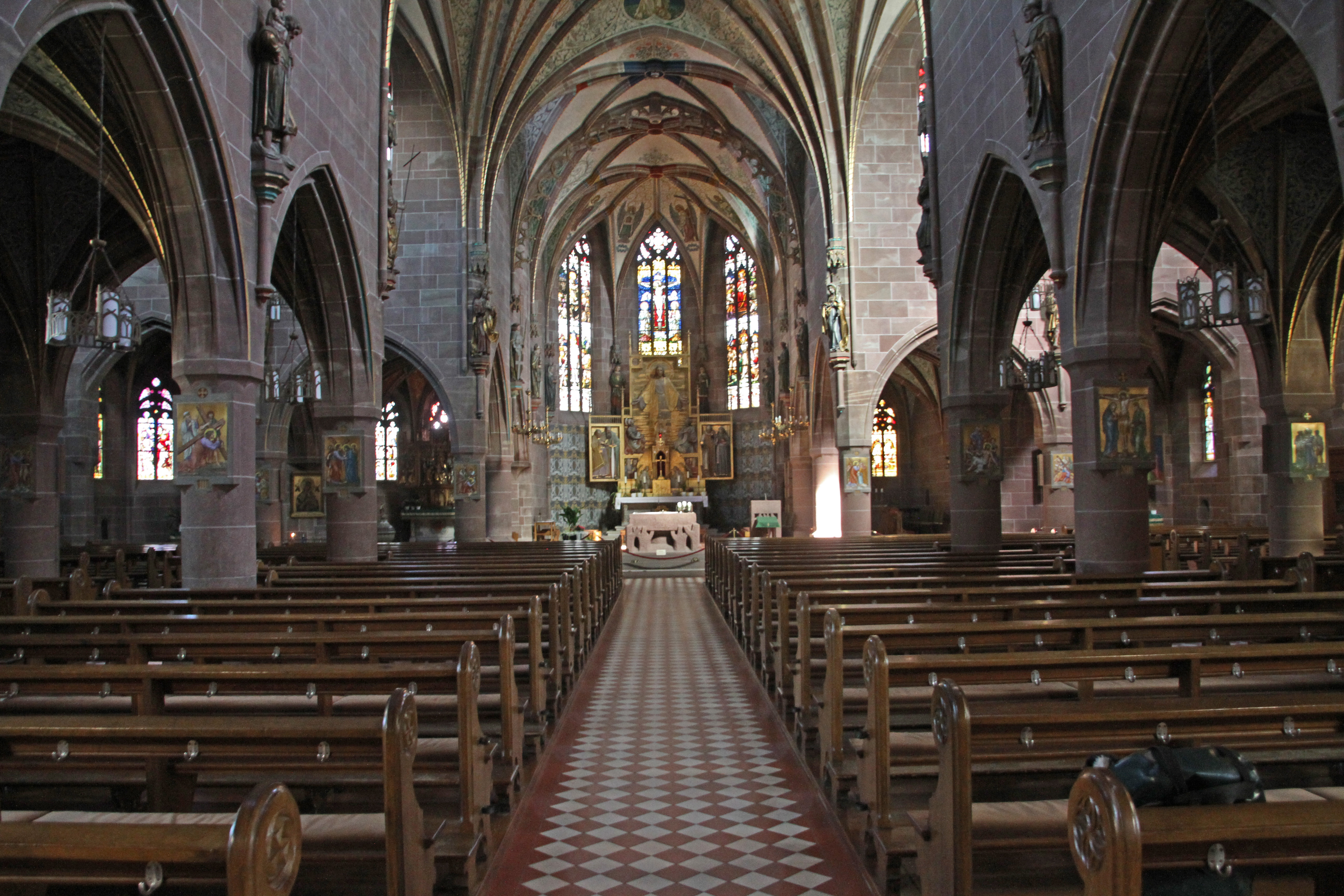 Church of Saint Sebastian in Kuppenheim, interior decoration.